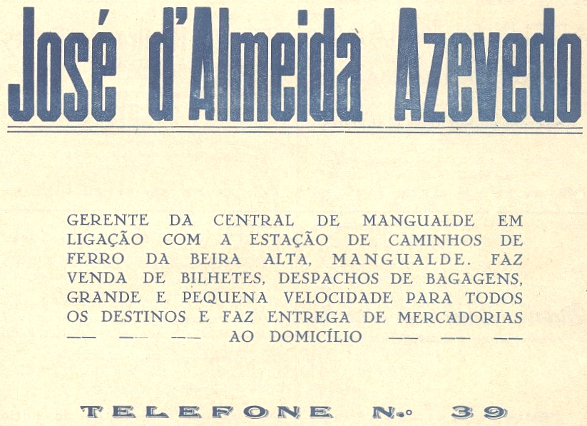 Advertisement for José de Almeida Azevedo, who operated a service of transport of passengers and cargo by road between the railway station and the town of Mangualde, in Portugal. This image was published in the Gazeta dos Caminhos de Ferro magazine No. 1340, of 16th October 1943, and scanned by the Hemeroteca Municipal de Lisboa.